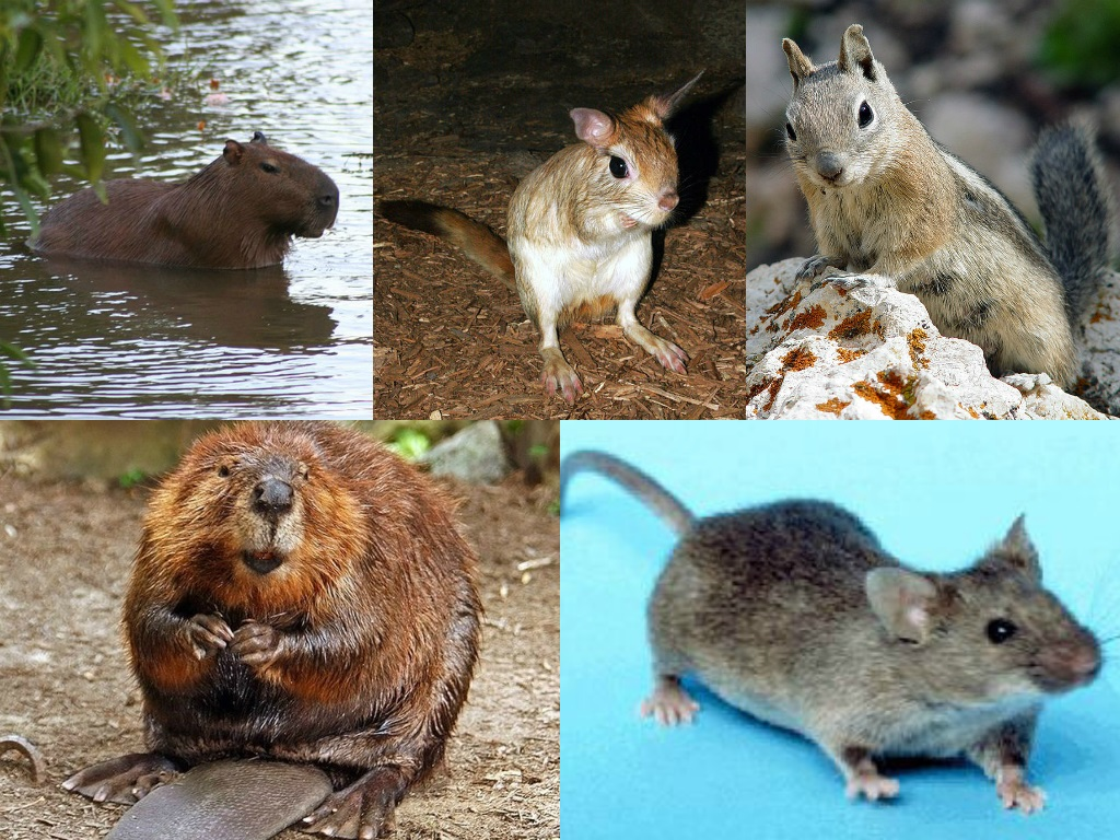 Various rodent species representing the different suborders (clockwise from upper left): Hystricomorpha, Anomaluromorpha, Sciuromorpha, Myomorpha and Castorimorpha